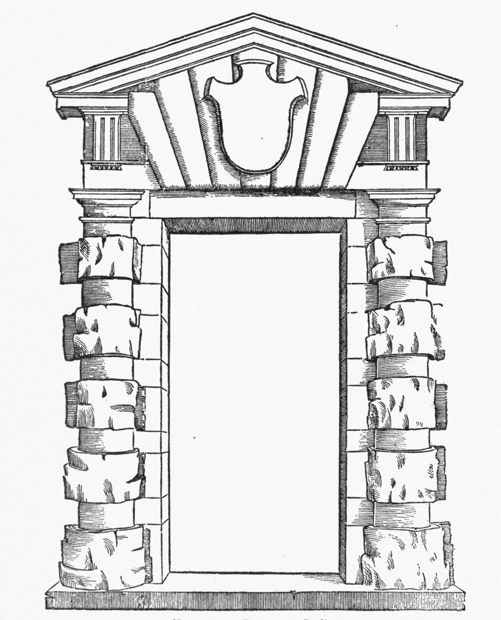 Scan from book 'Character of Renaissance Architecture'